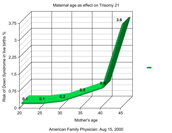 Graph (I created) illustrating data from the publication American Family Physician August 2000 which shows links between maternal age and percent chance for Trisomy 21 (Down Syndrome).